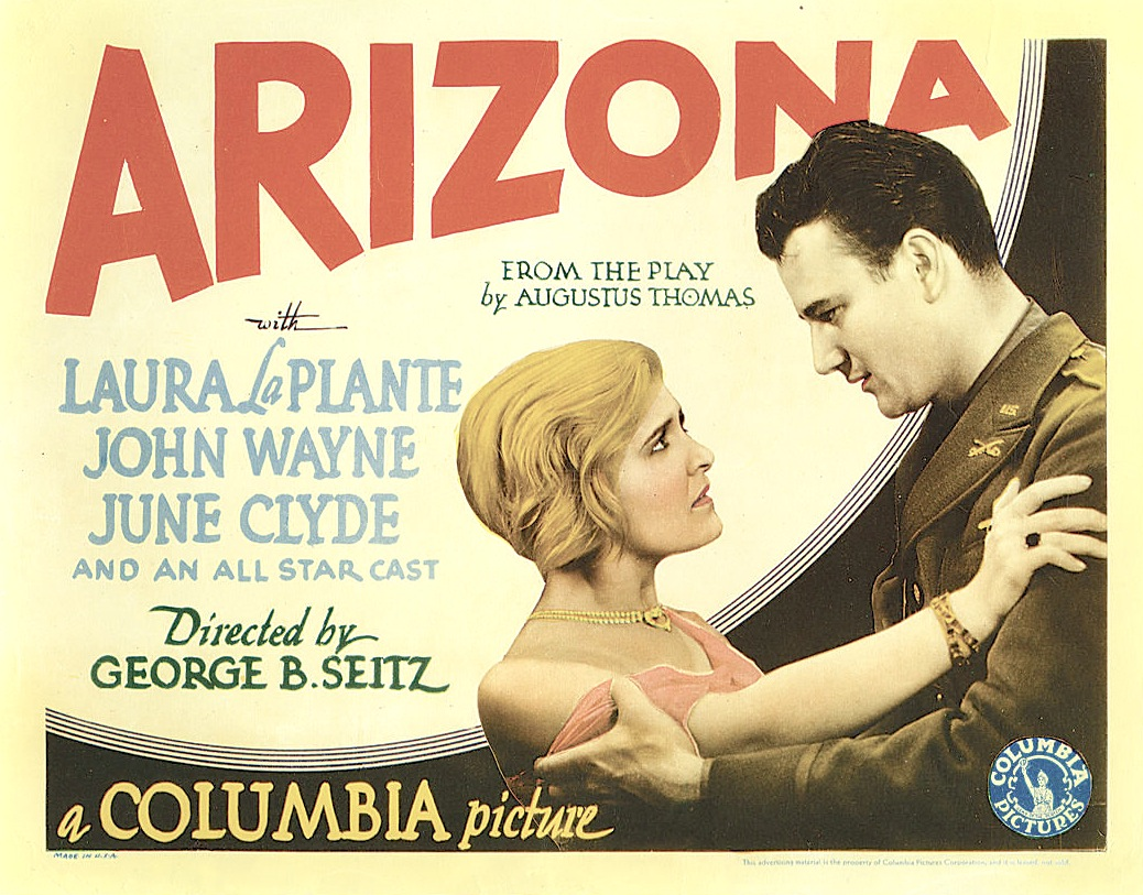 Arizona is a 1931 American drama film directed by George B. Seitz and starring Laura La Plante, John Wayne and June Clyde. This is a lobby card for the film.